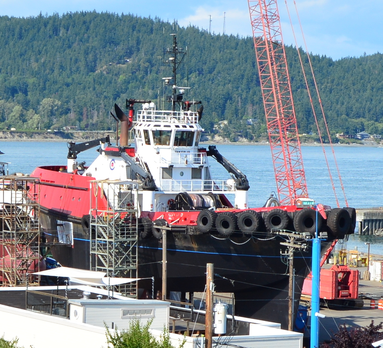 Tan'erliq (tug/escort) docked atAnacortes, Washington.